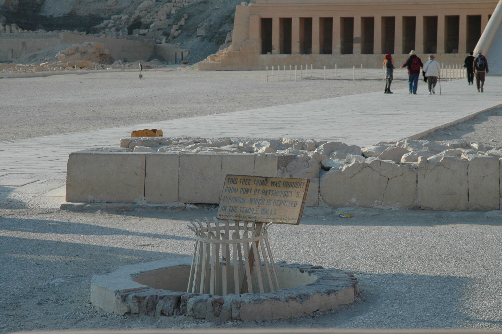 Tempio di Hatshepsut: ingresso